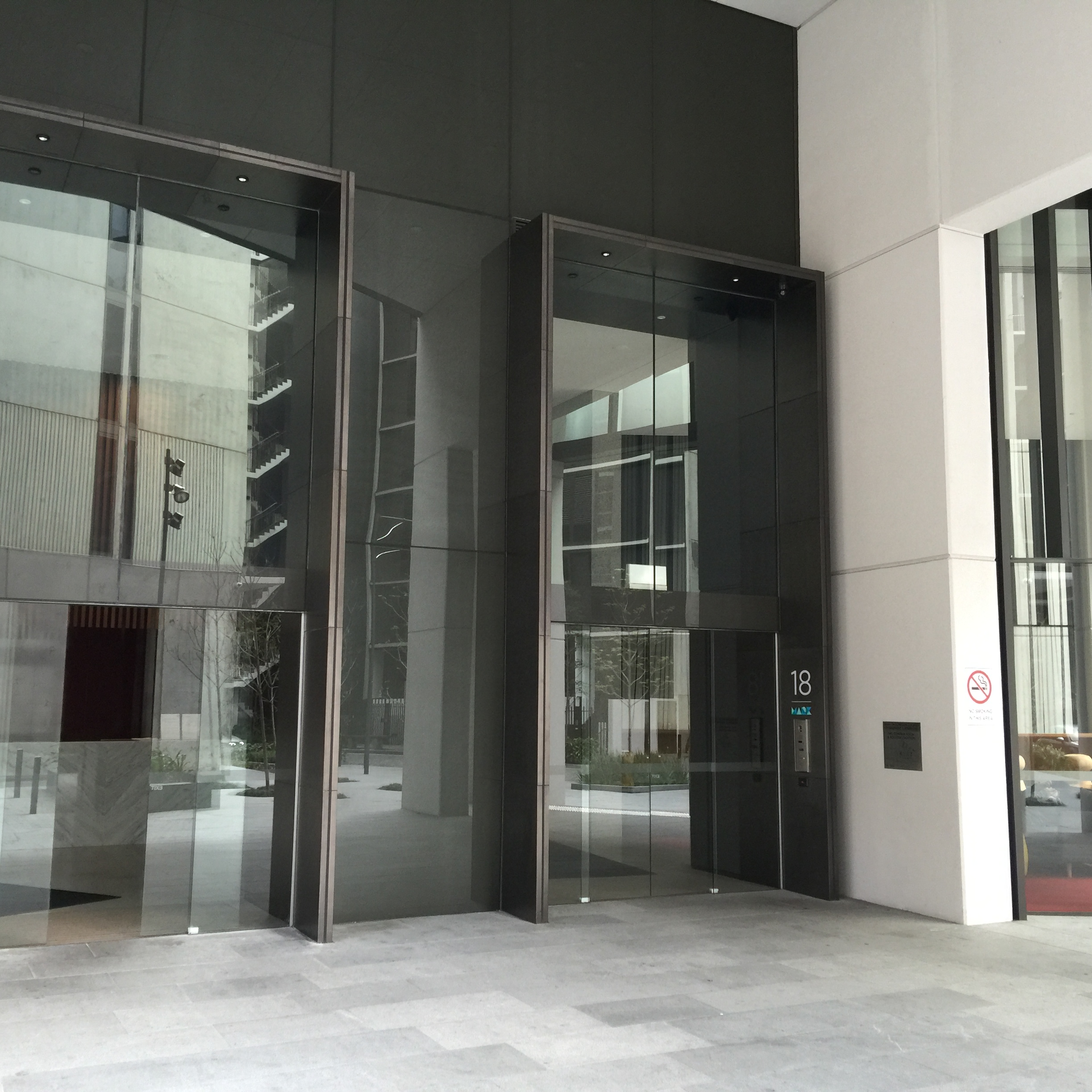 Building Facades